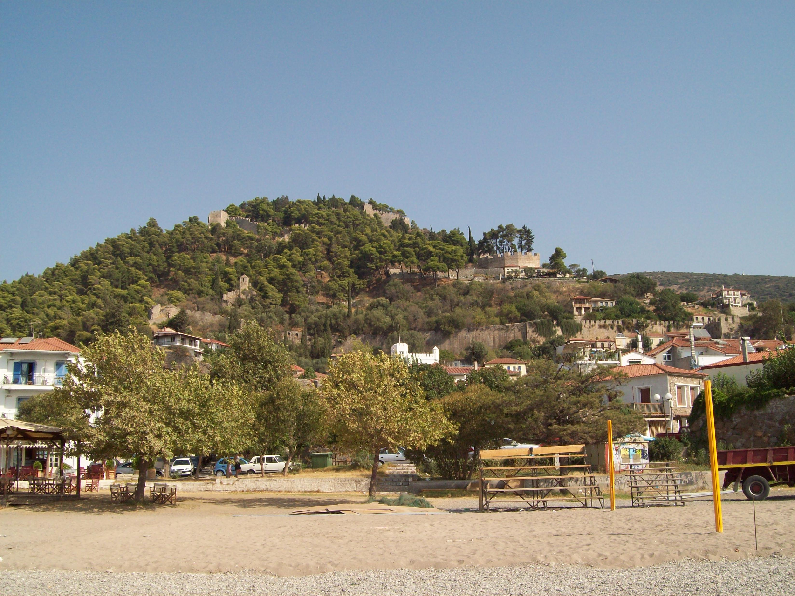 City of Nafpaktos, Greece